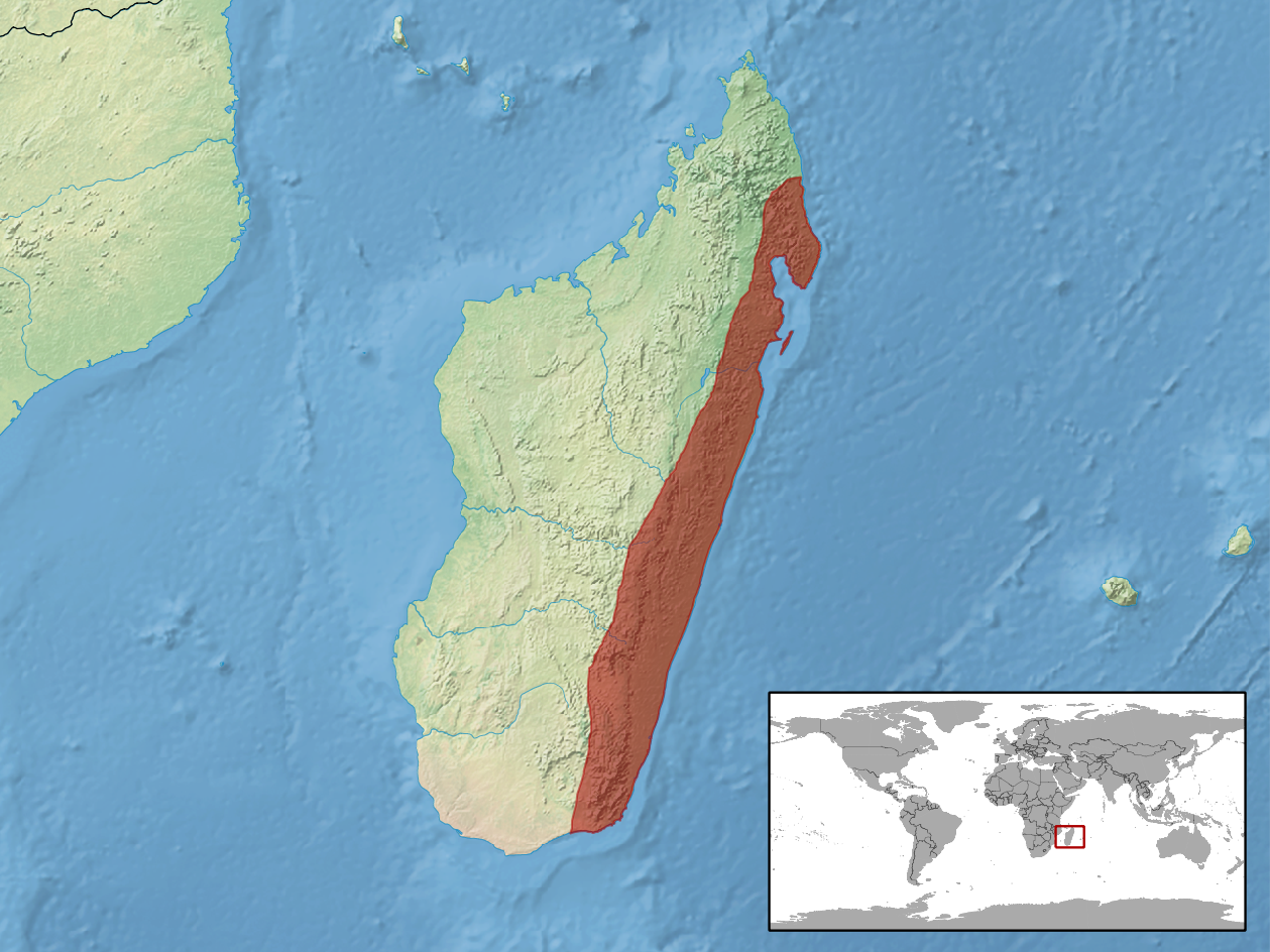 geographic distribution of Amphiglossus astrolabi